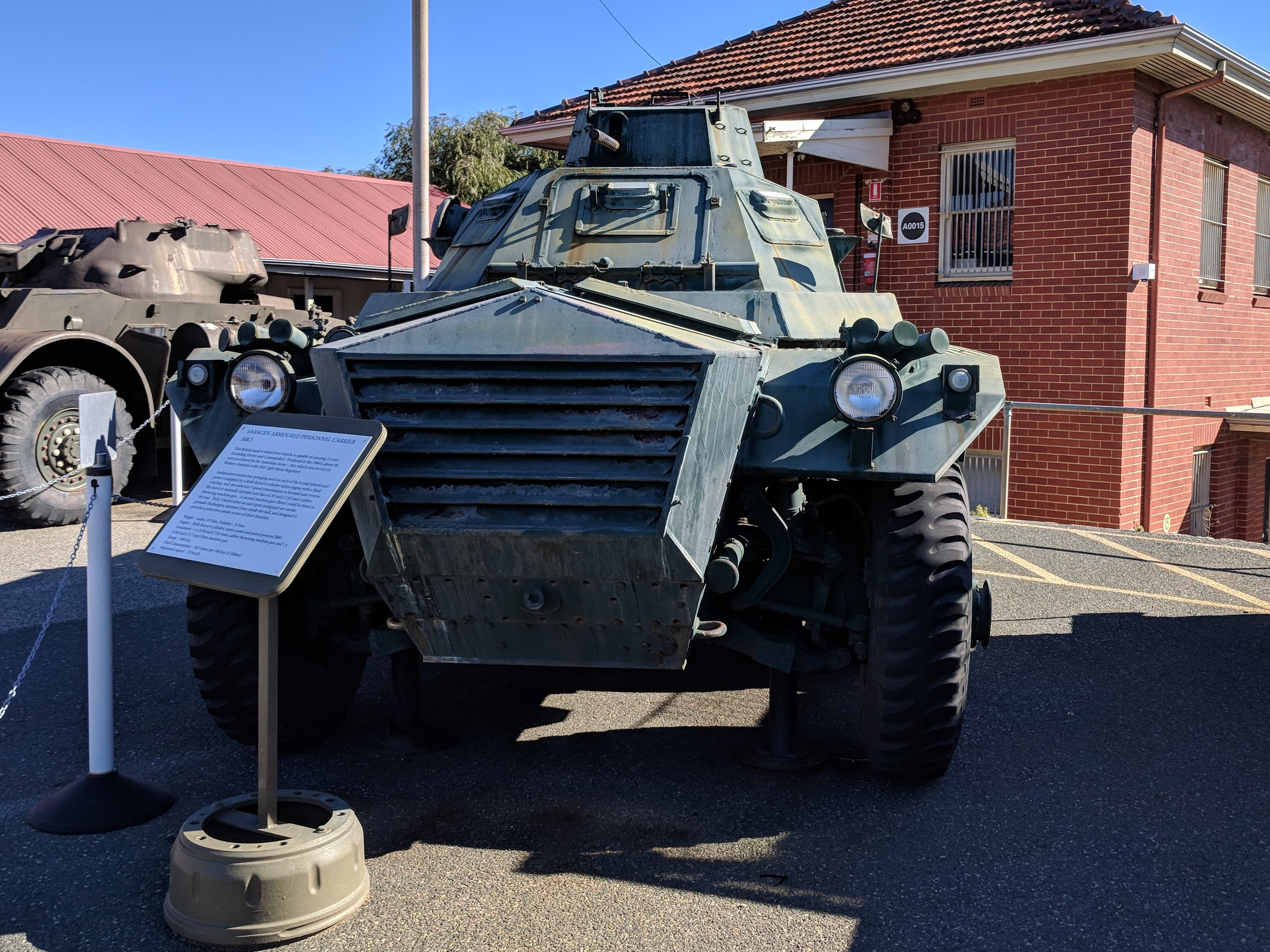 A former Australian Army Alvis Saracen at the Army Museum of WA